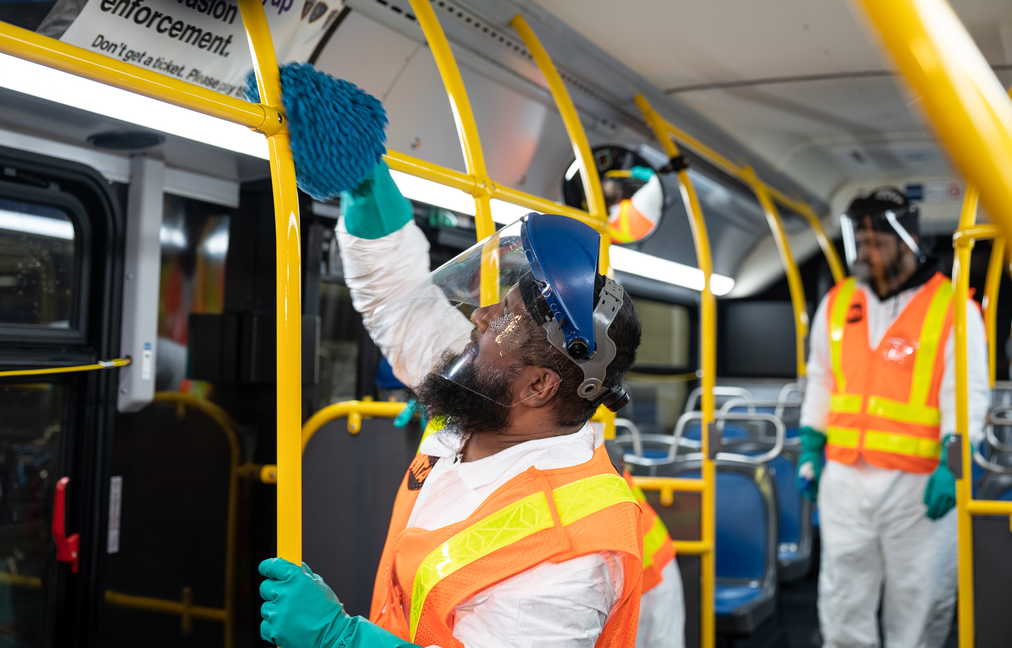 The Metropolitan Transportation Authority (MTA) continues to implement precautions in response to the novel coronavirus (COVID-19). New York City Transit, MTA Bus, Access-A-Ride, Long Island Rail Road and Metro-North are significantly increasing the frequency and intensity of sanitizing procedures at each of its stations and on its full fleet of rolling stock. Trains, cars and buses will experience daily cleanings with the MTA’s full fleet undergoing sanitation every 72 hours. Frequently used surfaces in stations, such as turnstiles, MetroCard and ticket vending machines, and handrails, will be disinfected daily. (Andrew Cashin / MTA New York City Transit)